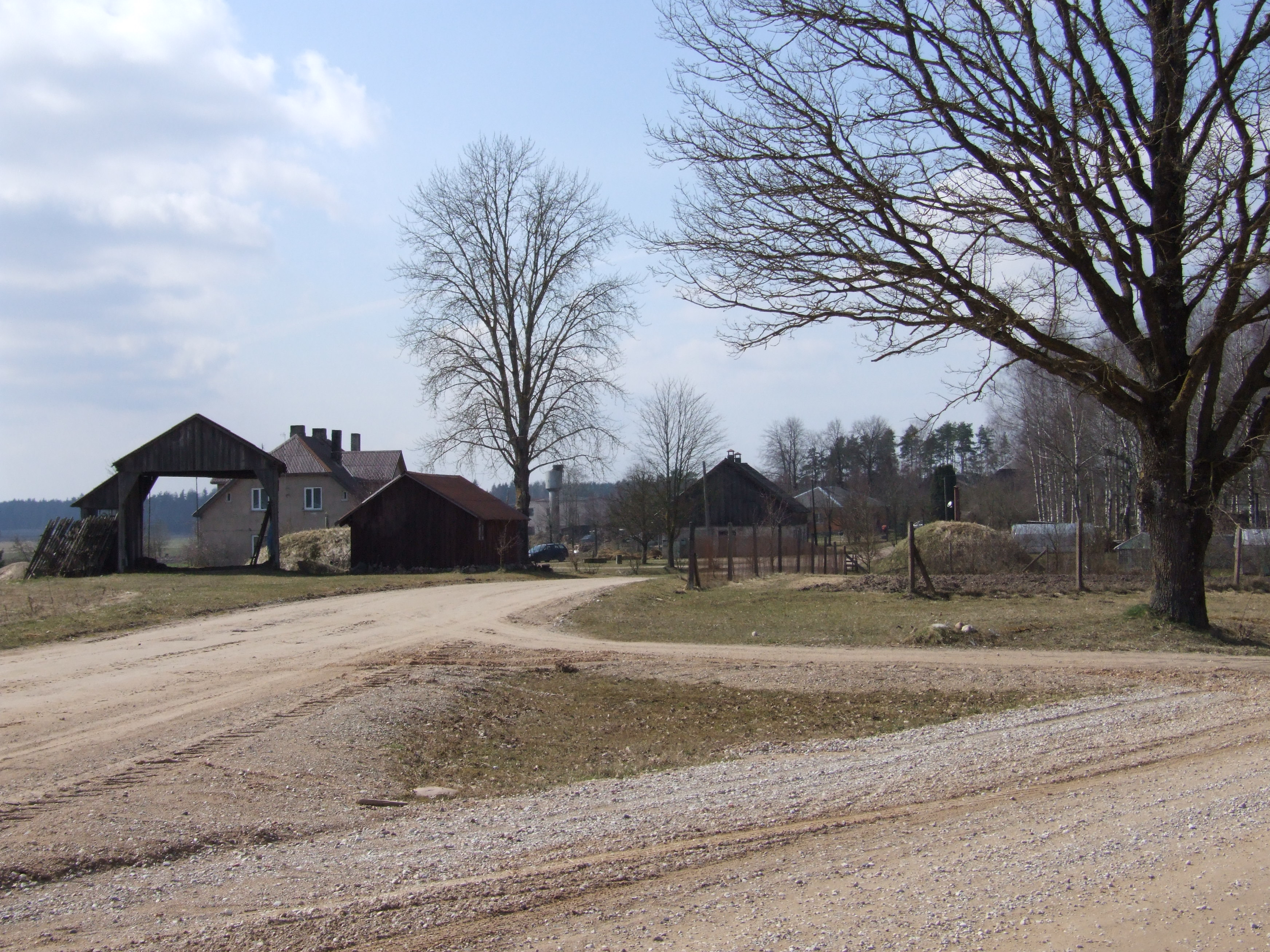 Kraujas village